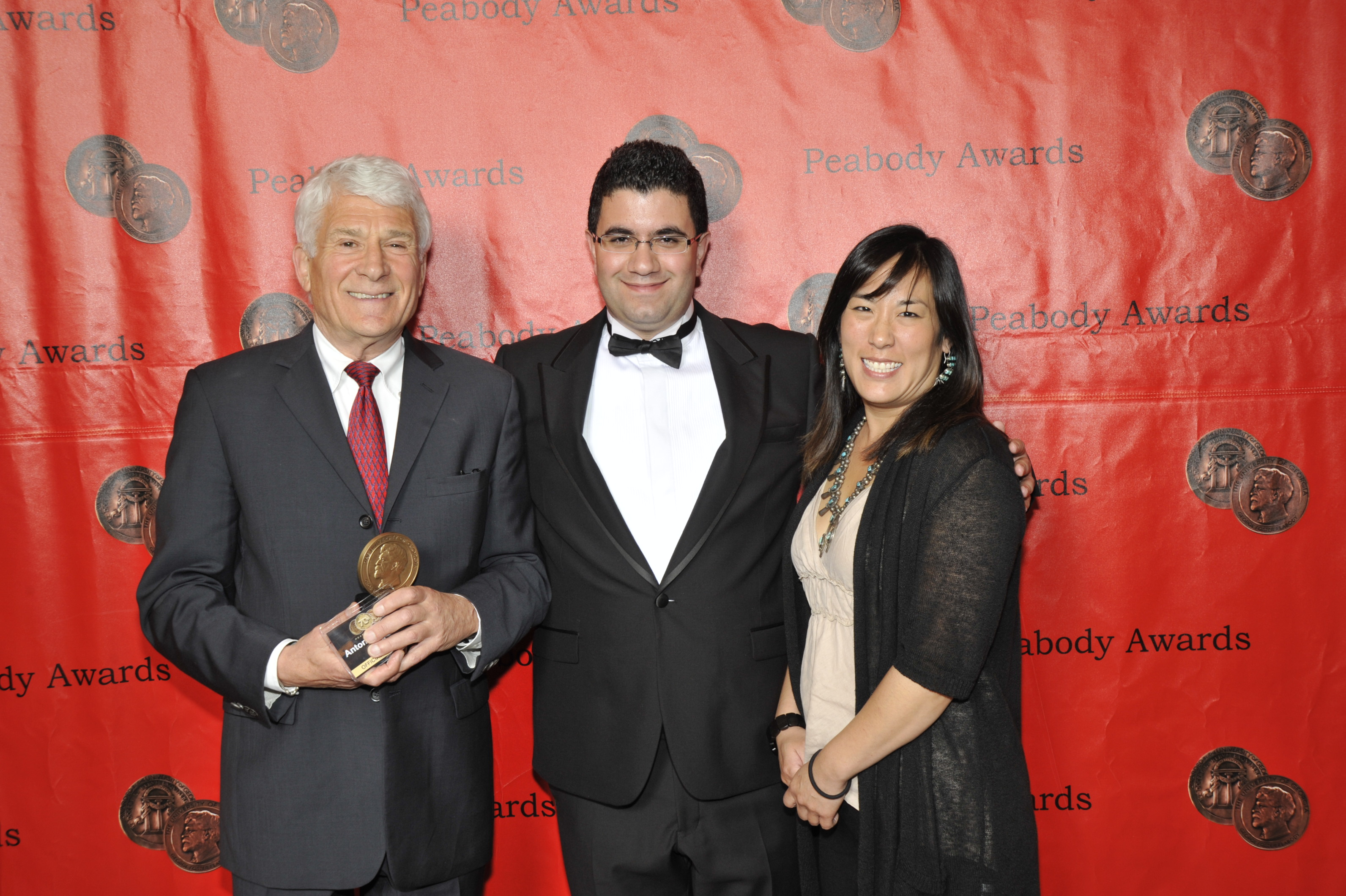 PHOTO CREDIT: ANDERS KRUSBERG / PEABODY AWARDS Antony Thomas, Saeed Kamali Dehghan and Carleen L. Hsu, 70th Annual Peabody Awards Luncheon Waldorf=Astoria Hotel May 23, 2011